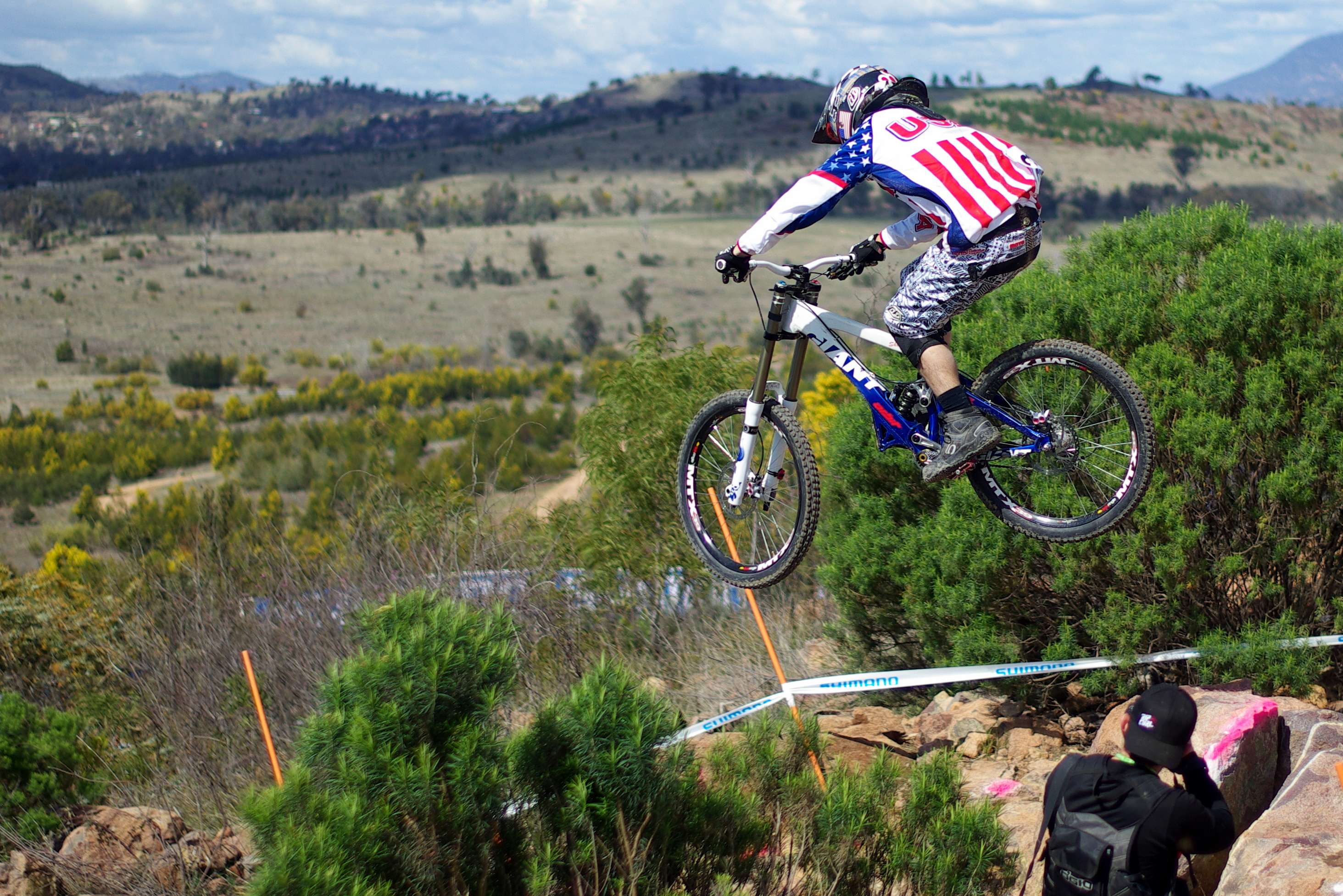 Cross-country mountain biking: Competitors in downhill events at the 2009 UCI Mountain Bike and Trials World Championships held at Mount Stromlo, near Canberra, Australia.